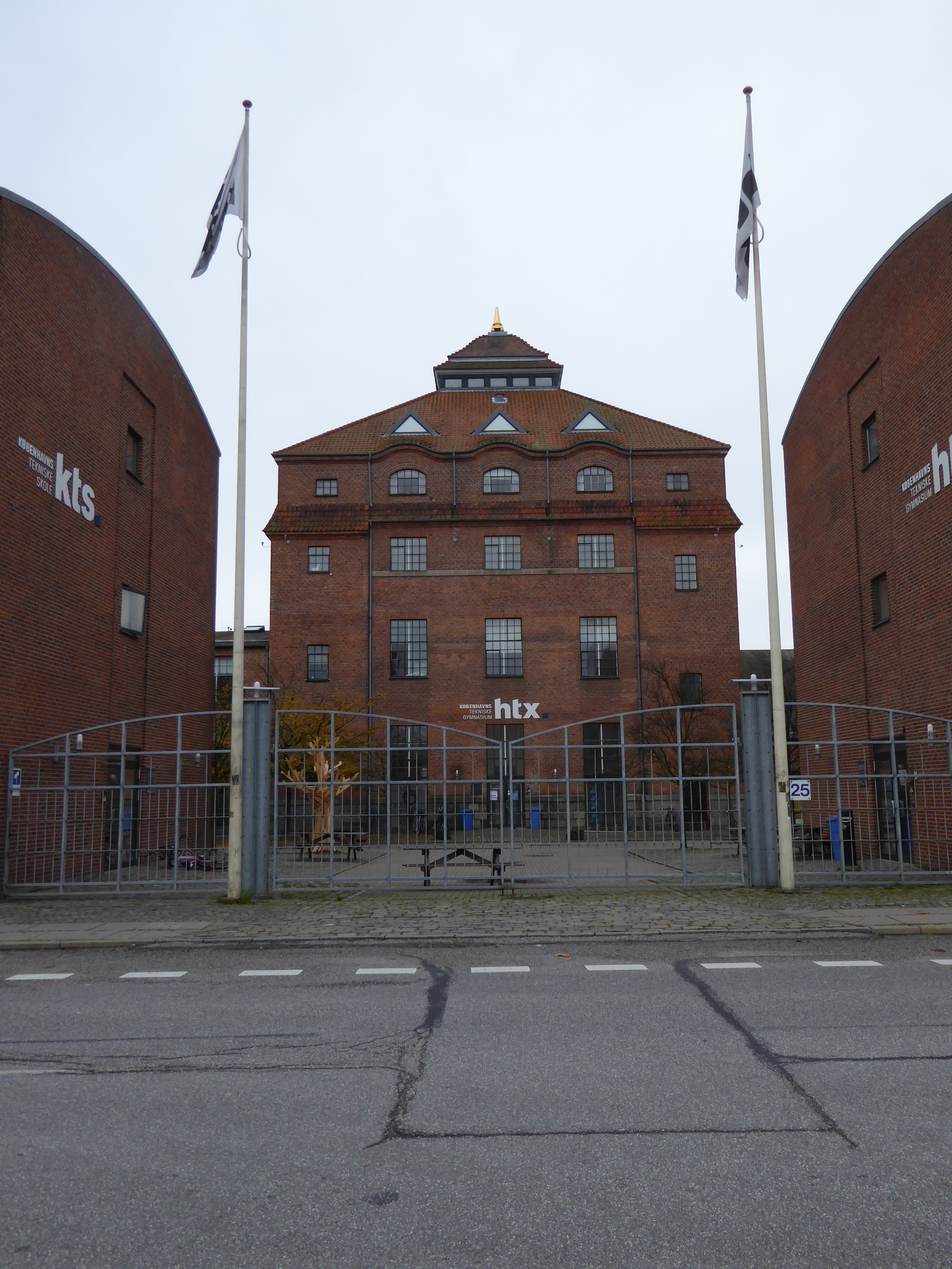 HTX Sukkertoppen on Carl Jacobsens Vej in Valby, Copenhagen, Denmark